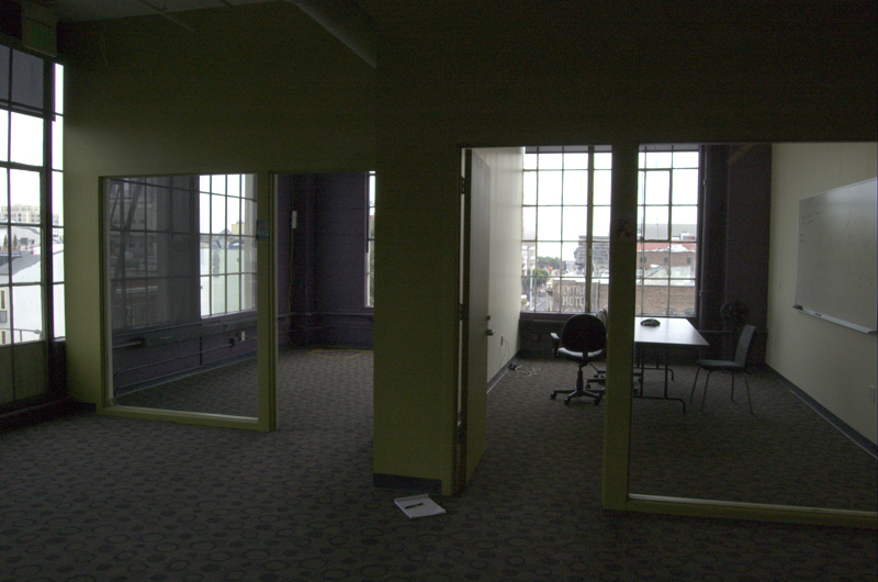 The new work space for the Wikipedia Usability project.